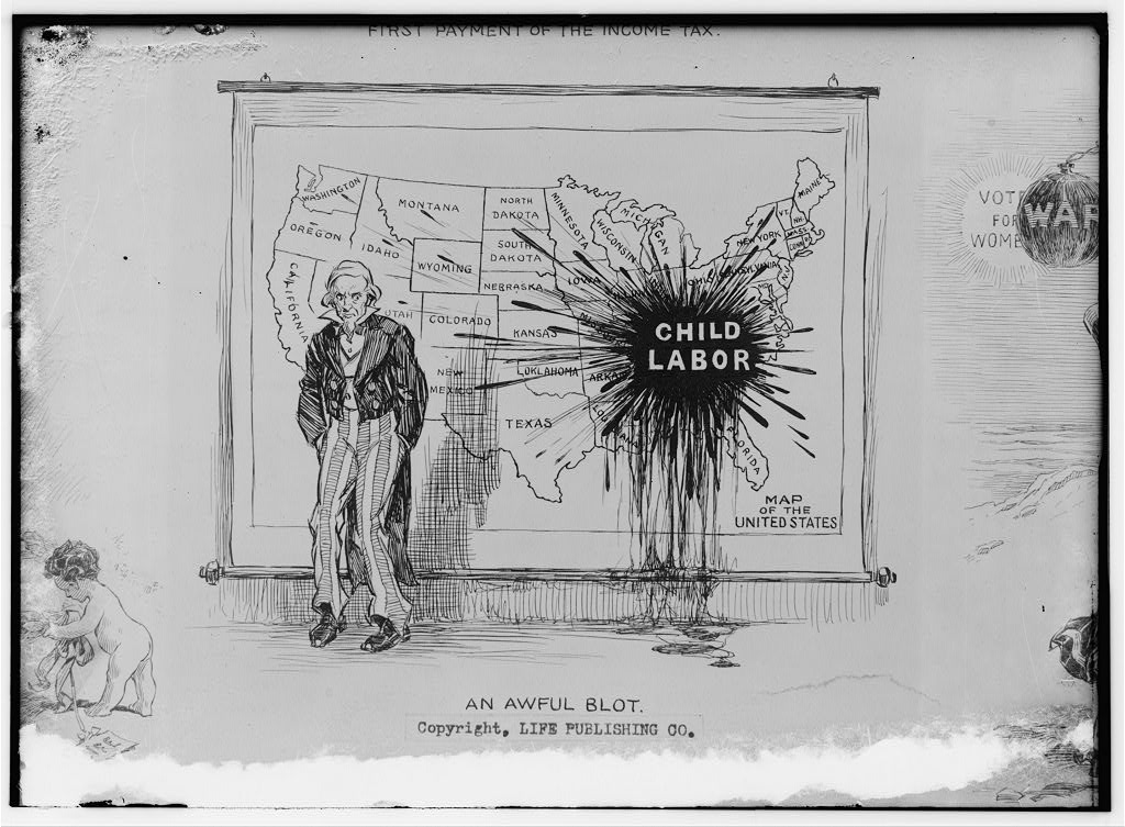 "An Awful Blot" added to caption card by P&P staff member. No location or date recorded on caption card. Date estimate based on cards for photographs with neighboring numbers. (Bits of other cartoons are seen at edges of image.)